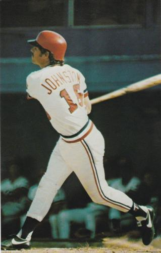 Color postcard from the 1981 Minnesota Twins postcard set of professional baseball player Greg Johnston